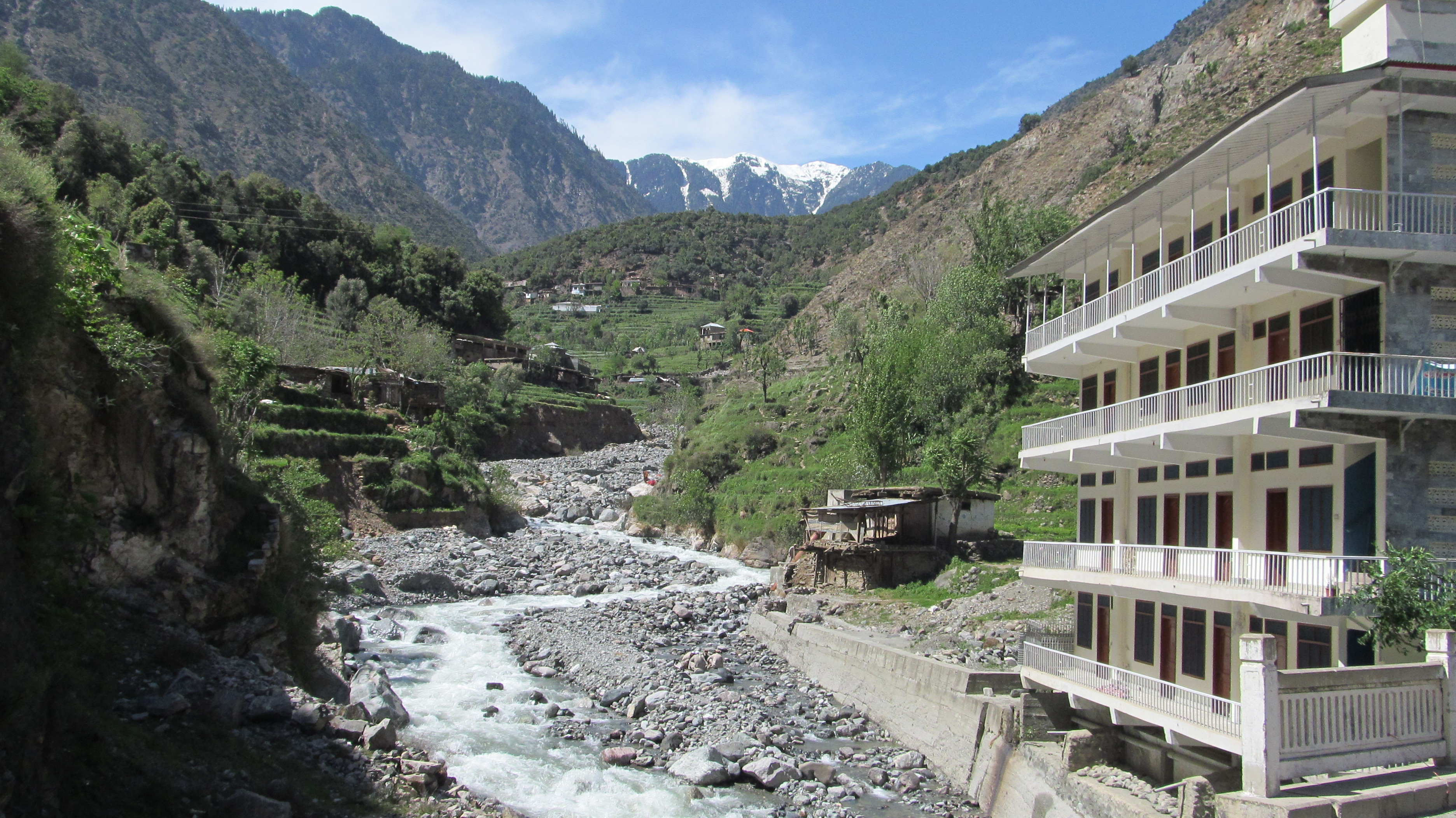 Kohistan inn hotel